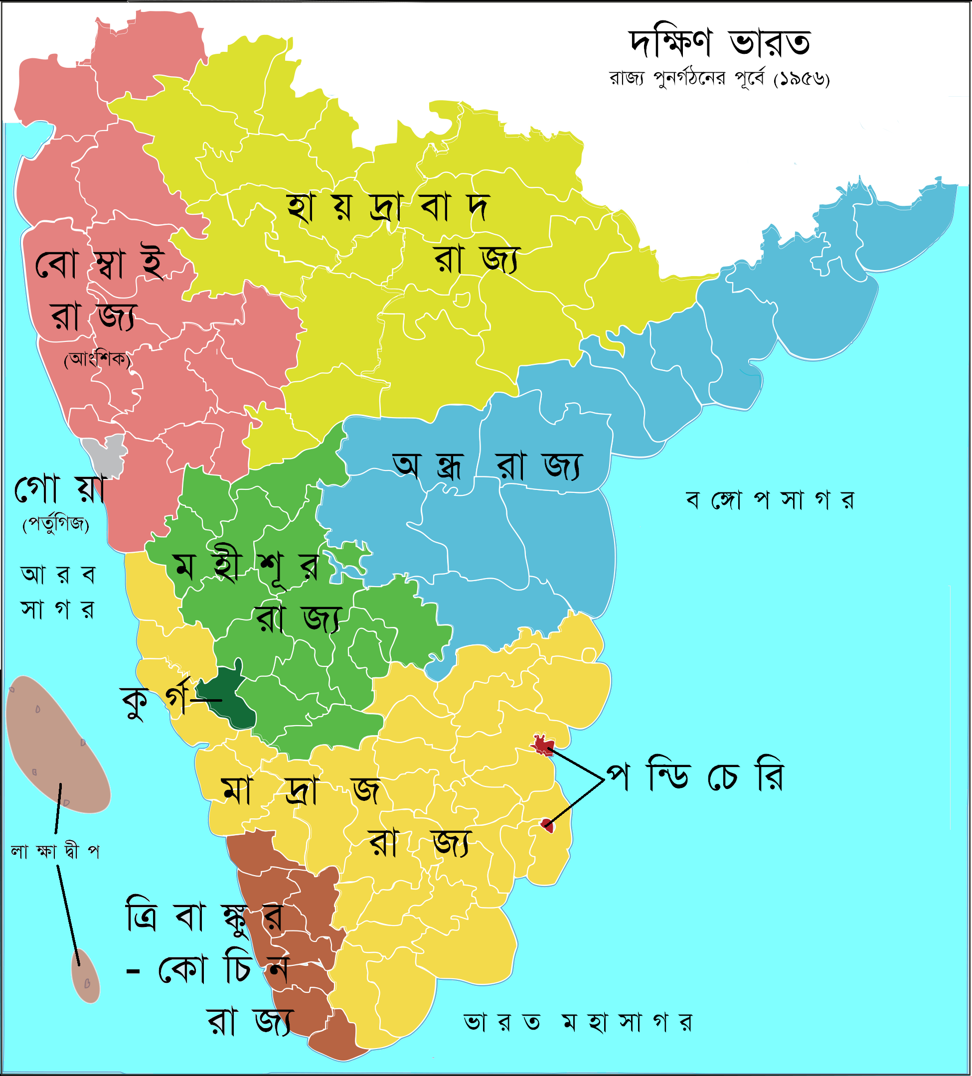 South India 1956 before reform of administrative divisions. Original upload log This image is a derivative work of the following images: File:South_Indian_territories.svg licensed with Cc-by-3.0, GFDL 2008-06-13T01:35:56Z File Upload Bot (Magnus Manske) 693x748 (724956 Bytes) Information |Description= en| :bn::en:South India| n states prior to the :bn::en:States Reorganisation Act| (1956) == Source data and maps == 1. Nizam's Territories: Uploaded with derivativeFX Category:States and territories of India Category:Maps of South India Category:Travancore Category:Satavahana Category:Hyderabad State Category:Mysore Kingdom]